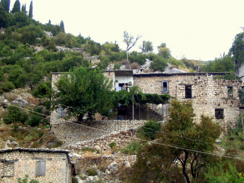 A traditional style Armenian house in Kessab, Syria.